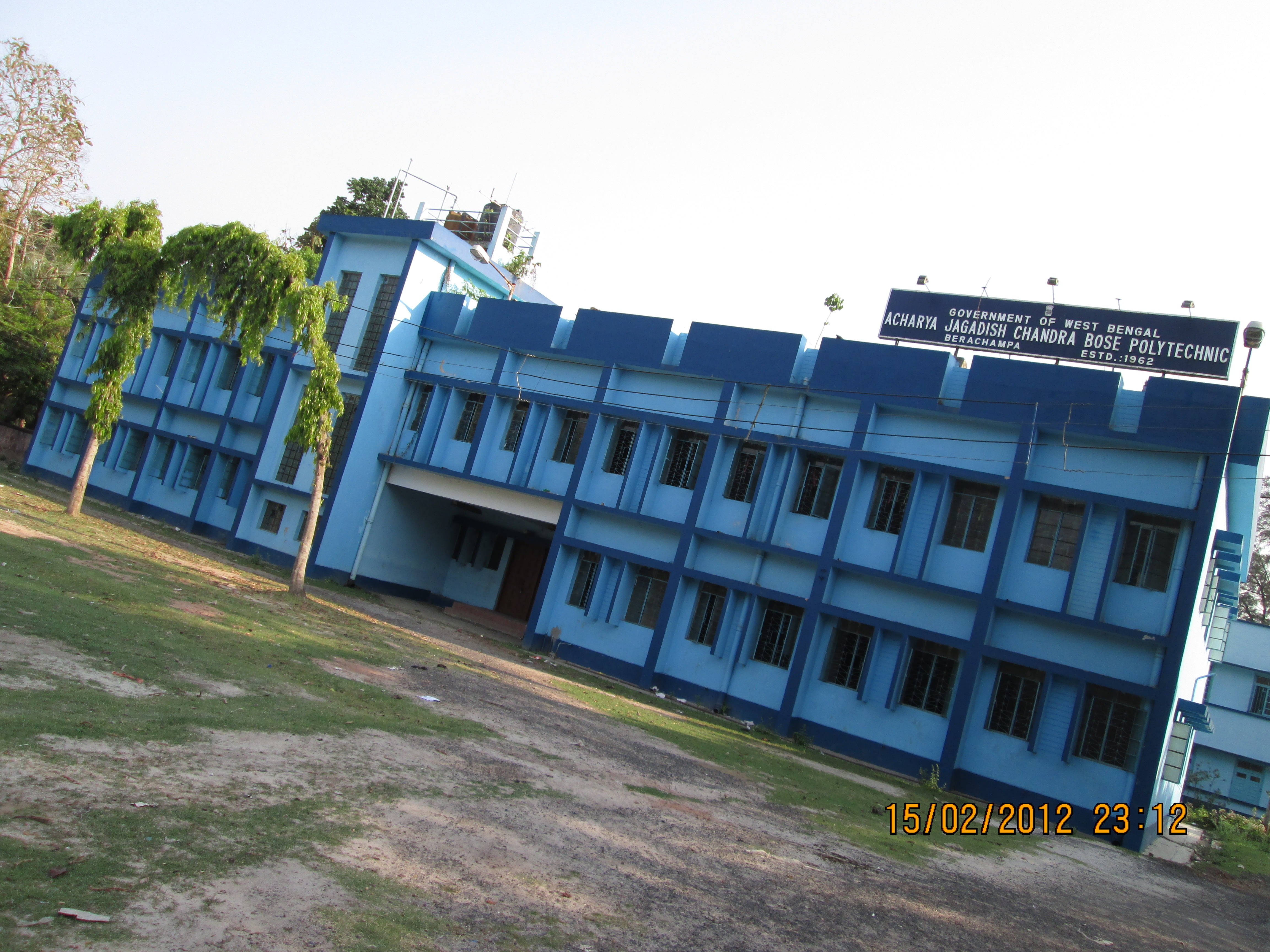 Acharya Jagadish Chandra Bose Polytechnic